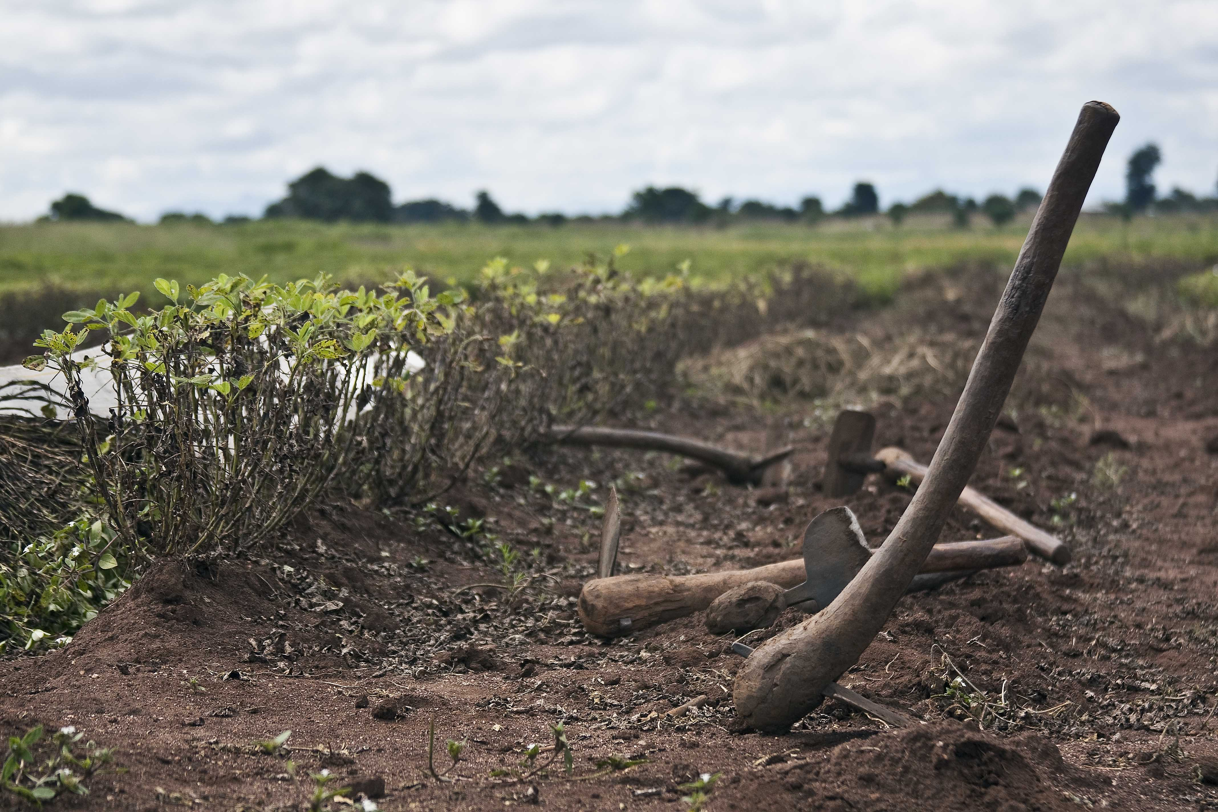 Farm tools at Chitedze Research Station, Malawi.